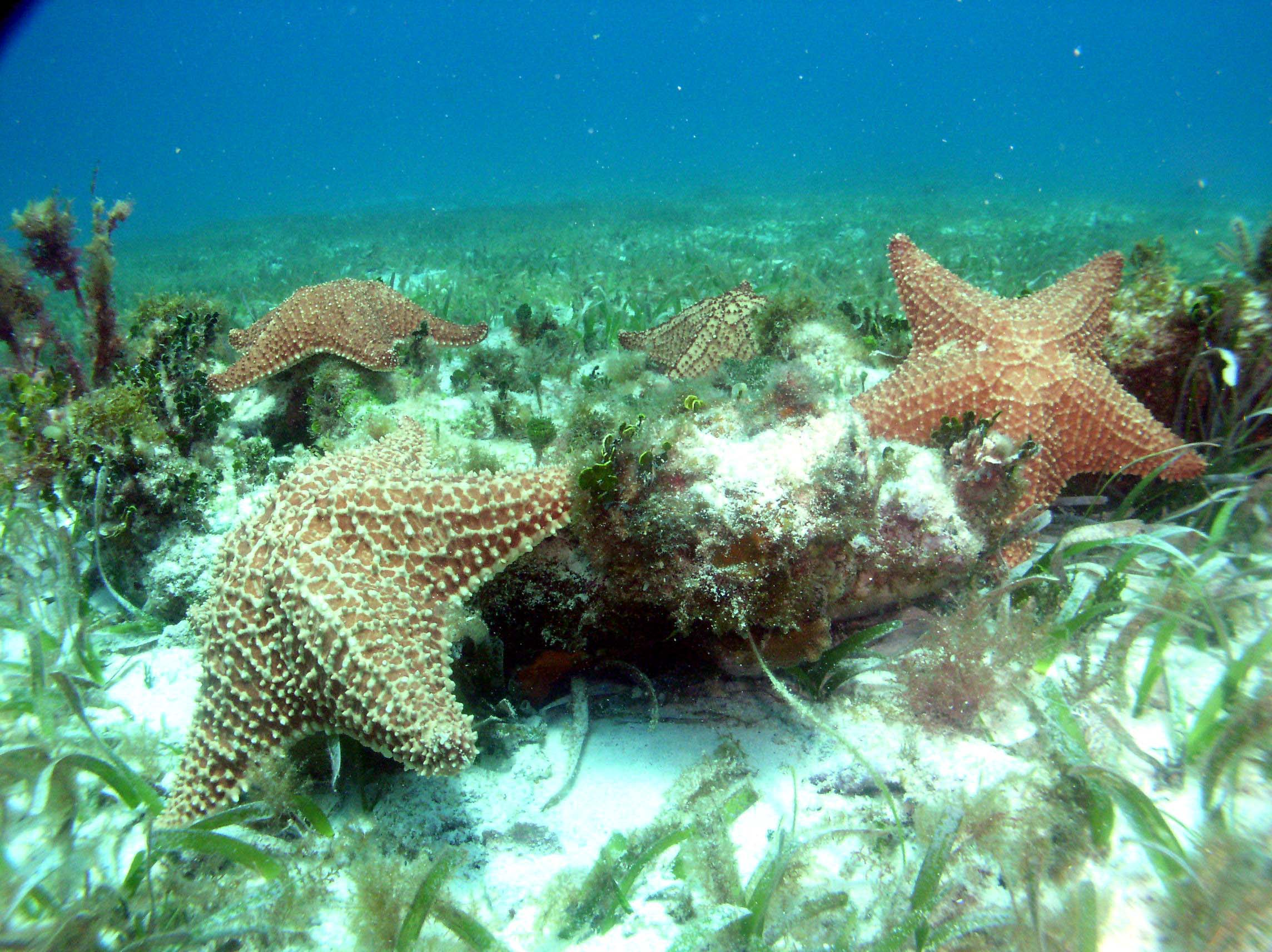 3 Sea Stars during a scuba adventure